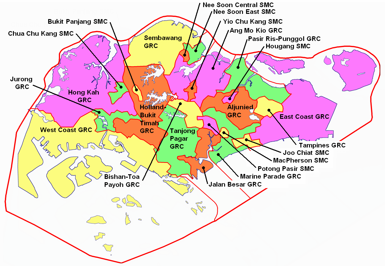 Created by Vsion References: Elections Department Singapore, URL accessed 3 March 2006. This map is for illustration only, please consult Elections Department Singapore for official information. The Singapore map and division boundaries may contain errors. Please report any error to user:Vsion in .